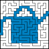 The solution to a picture maze, showing a watering can.